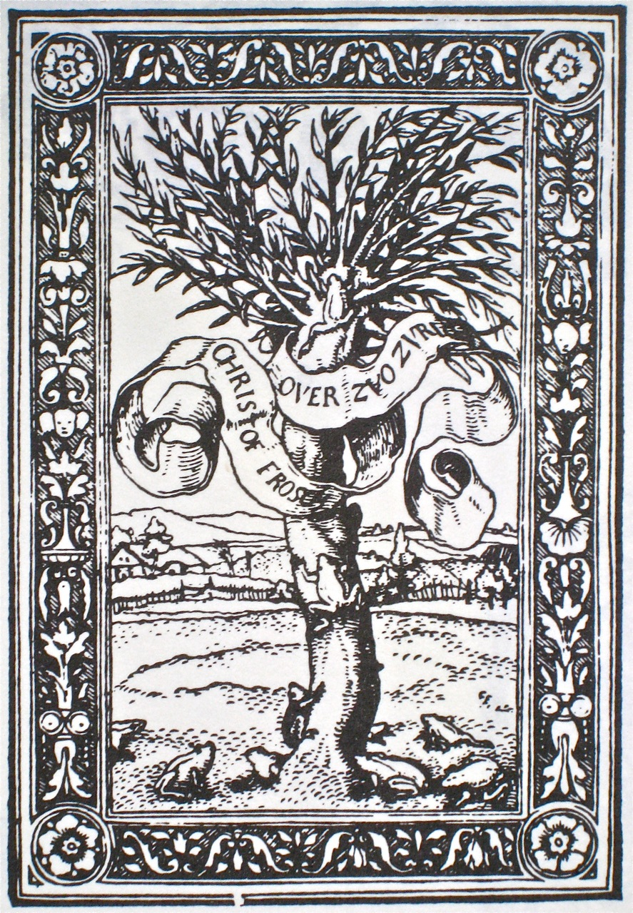 Christoph Froschauer, Printer's mark 1525